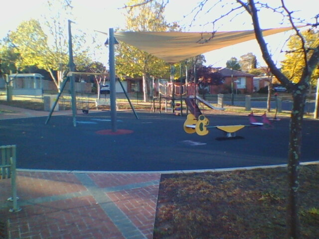 Playground opposite the Ngunnawal IGA